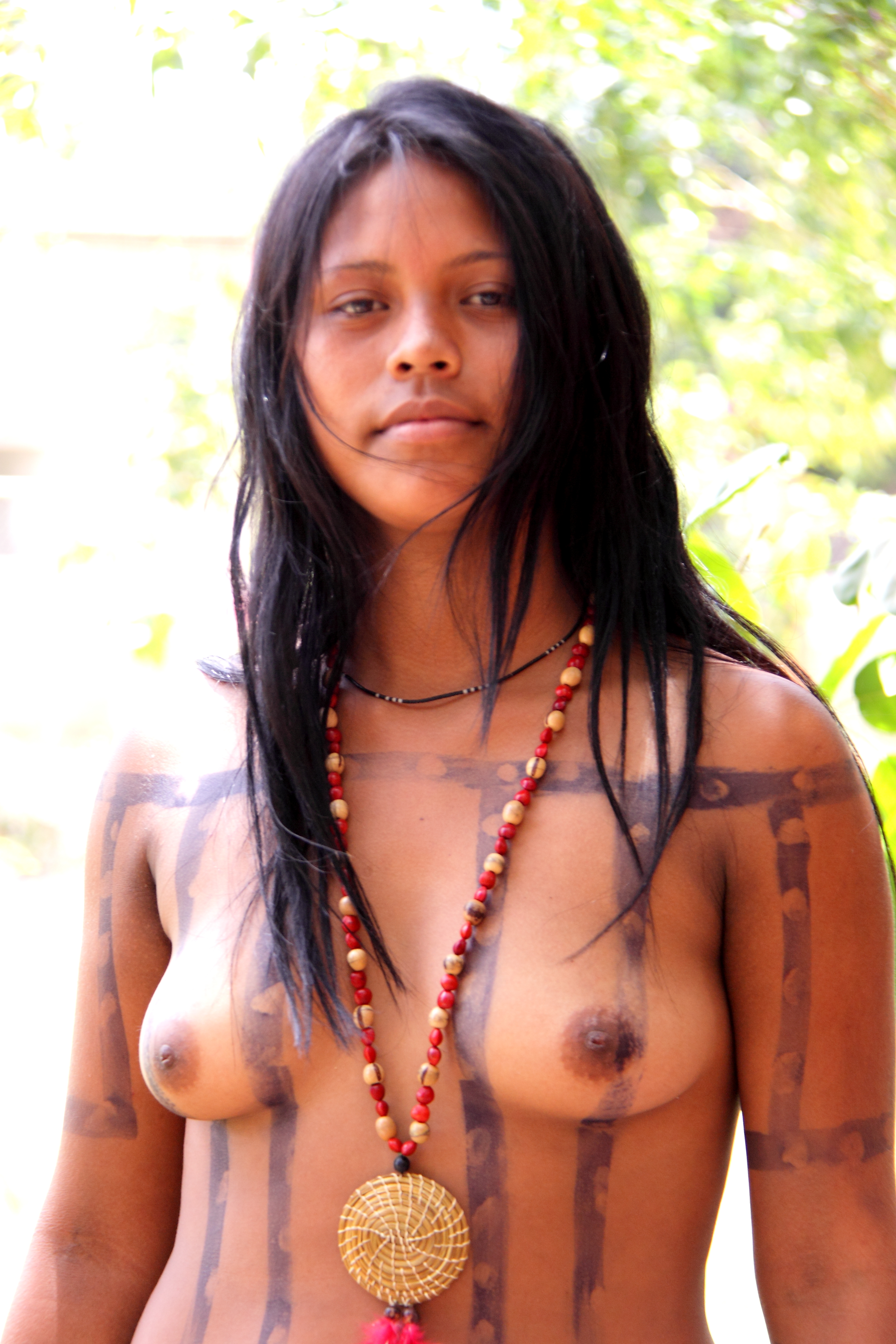 young indian Xerente from south america, from Tocantins province, Basil